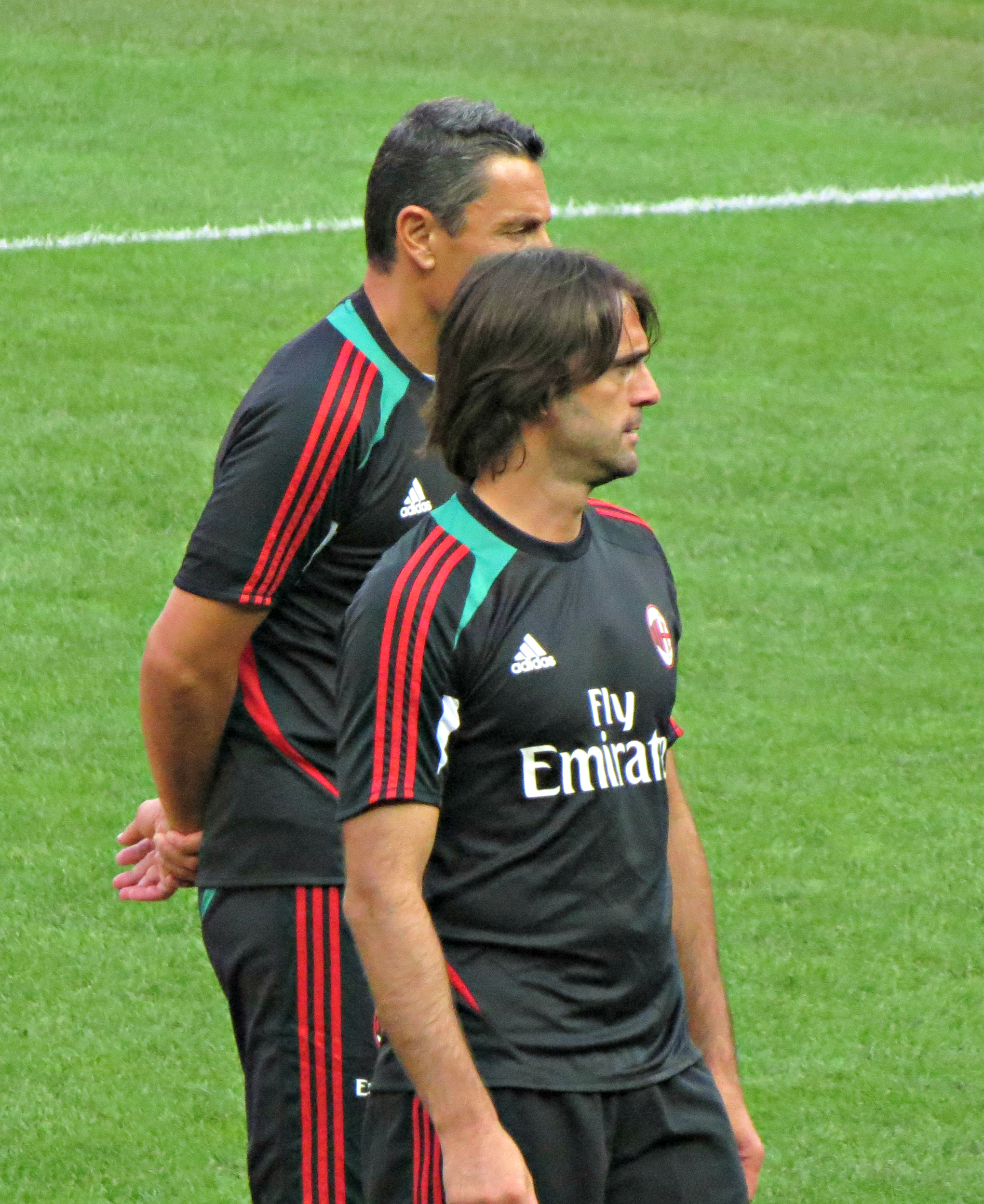 AC Milan goalkeeping coach Valerio Fiori.